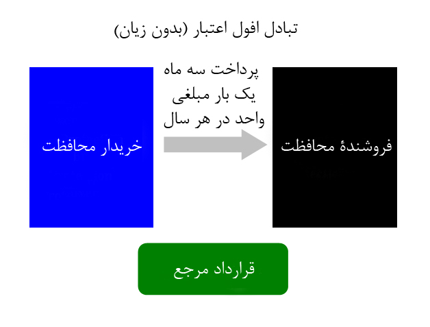 Credit Default Swap.